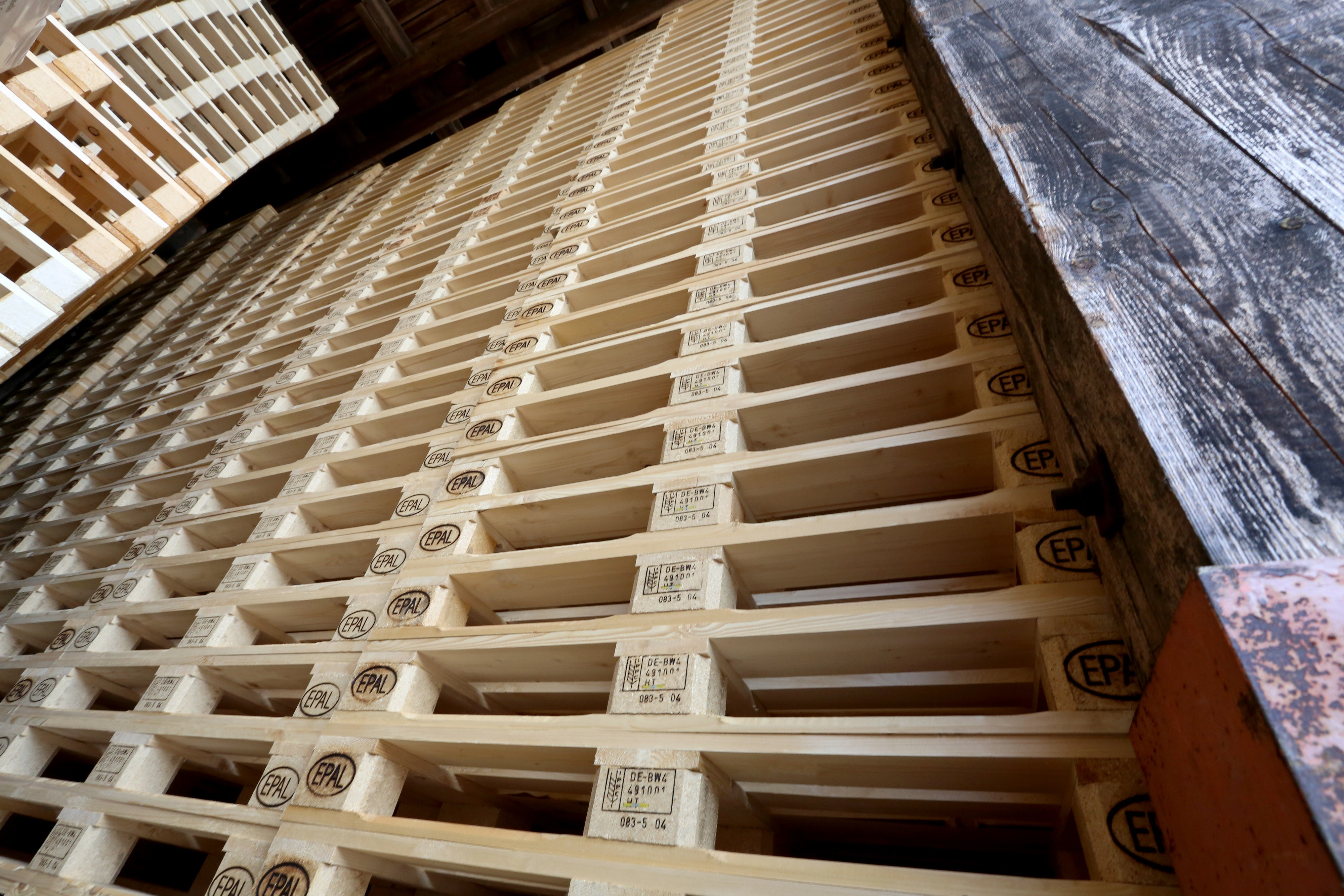 stack of EPAL pallet